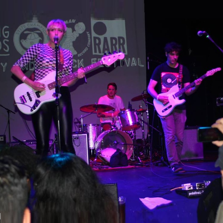 Dentist at the 2018 North Jersey Indie Rock Festival.